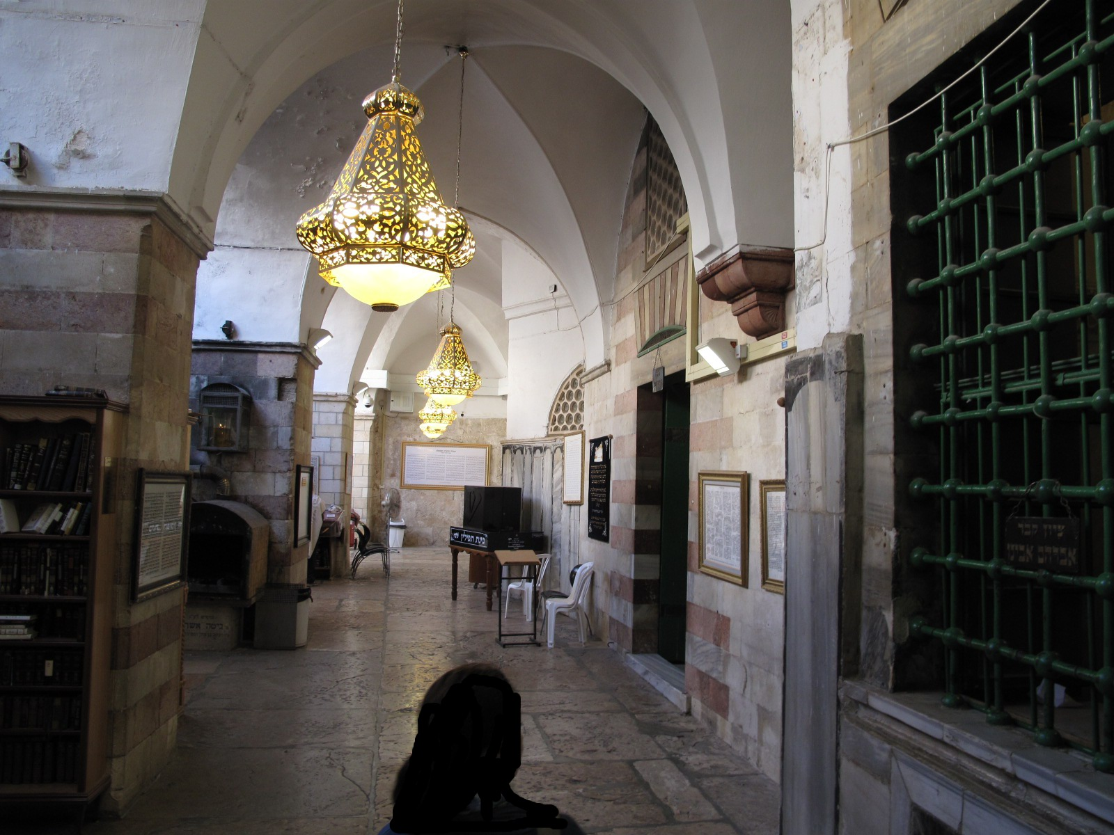 Cave of Patriarch - northwestern area Photo taken by myself in the Cave of the Patriarchs (Hebron) on October 25, 2010